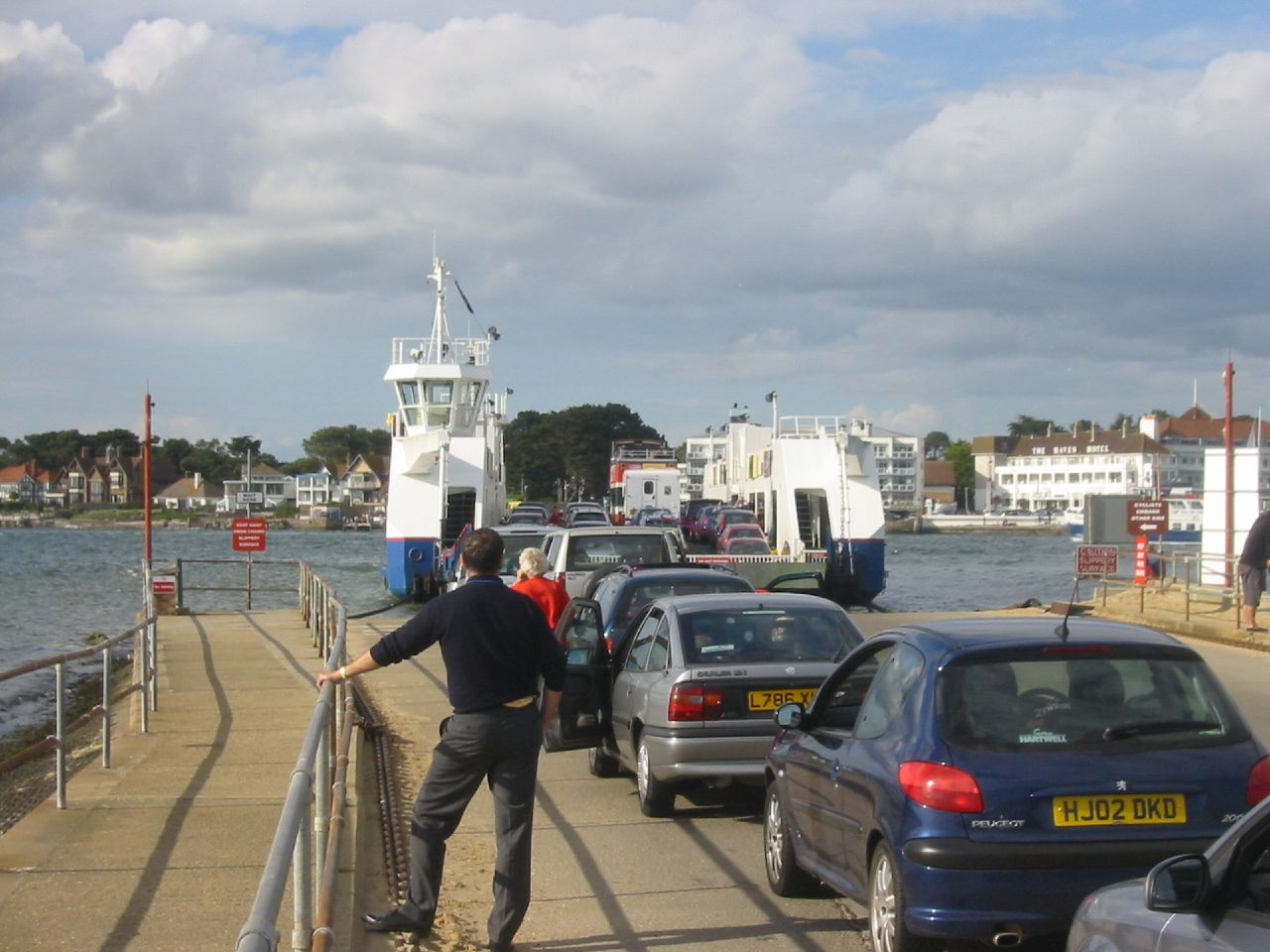 Sandbanks Ferry, near Poole, Dorset, England Taken by Sean Davis